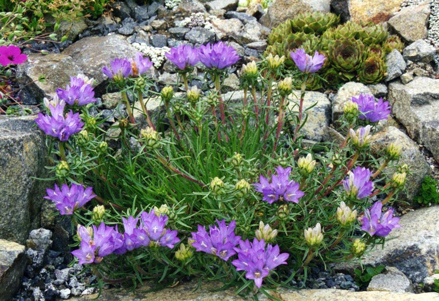 Edraianthus serbicus